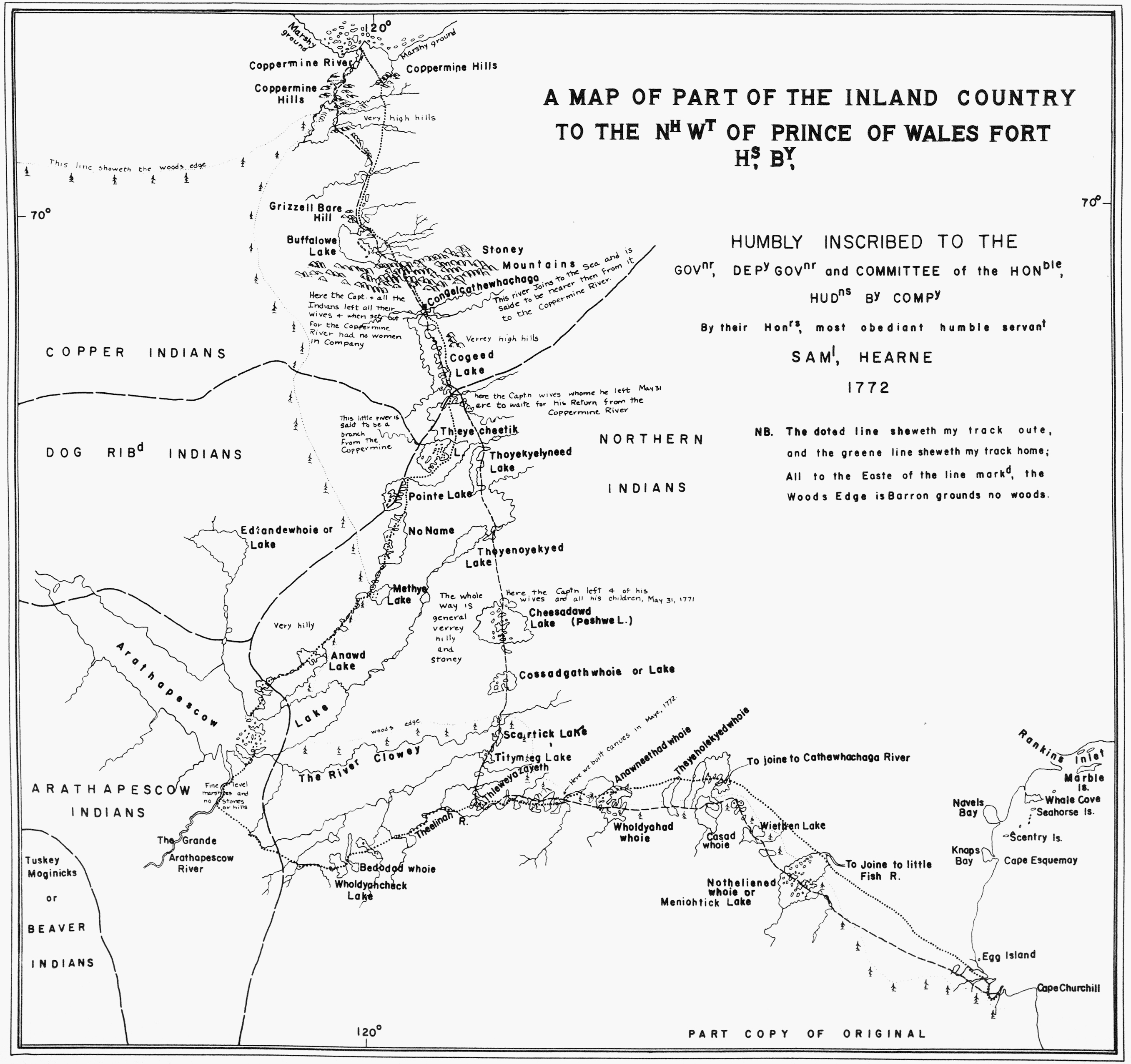 The following is the author's description of the photograph quoted directly from the photograph's Flickr page."Hearne, Samuel. A Map of Part of the Inland Country to the Nh Wt of Prince of Wales Fort Hs, By, Humbly Inscribed to The Govnr, Depy Govnr and Committee of the Honble, Hudns By Compy By their Honrs, most obedient humble servant Saml, Hearne 1772 [facsimile]. [1:3,801,600]. In: John Warkentin and Richard I. Ruggles. Manitoba Historical Atlas : a Selection of Facsimile Maps, Plans, and Sketches from 1612 to 1969. Winnipeg: Historical and Scientific Society of Manitoba, 1772, p. 92. As reproduced by, Winnipeg: Historical and Scientific Society of Manitoba.Churchill Fort at the mouth of the Churchill River, in what is now the Province of Manitoba, was the commencement point for Hudson%u2019s Bay Company exploratory-trade activity across the Barren Grounds, and the collection centre for information on this region. This map, prepared by Samuel Hearne, a young employee of the Company, in 1772, represents the culmination of the effort of Moses Norton, Factor at this post, to gain a more precise understanding of the geography of the country inland, and to encourage peace between its Indian and Eskimo inhabitants, thereby encouraging the expansion of peaceful trade. The map presents in detail, and with considerable precision, many of the water features between Churchill and Coppermine rivers, which were previously sketched in roughly and simply by Indians as shown in the three preceding maps. Except for the delineation of the ocean shore, the map does not show much of Manitoba territory. The tree line is indicated by a dotted line. (Warkentin and Ruggles. Historical Atlas of Manitoba. map 35, p. 92)Map prepared in black ink by R.I. Ruggles, from original manuscript (map G. 2/10) in the Archives, Hudson's Bay Company, London. Manuscript map in black ink with coloured portions on medium weight paper. Drawn by Samuel Hearne. "